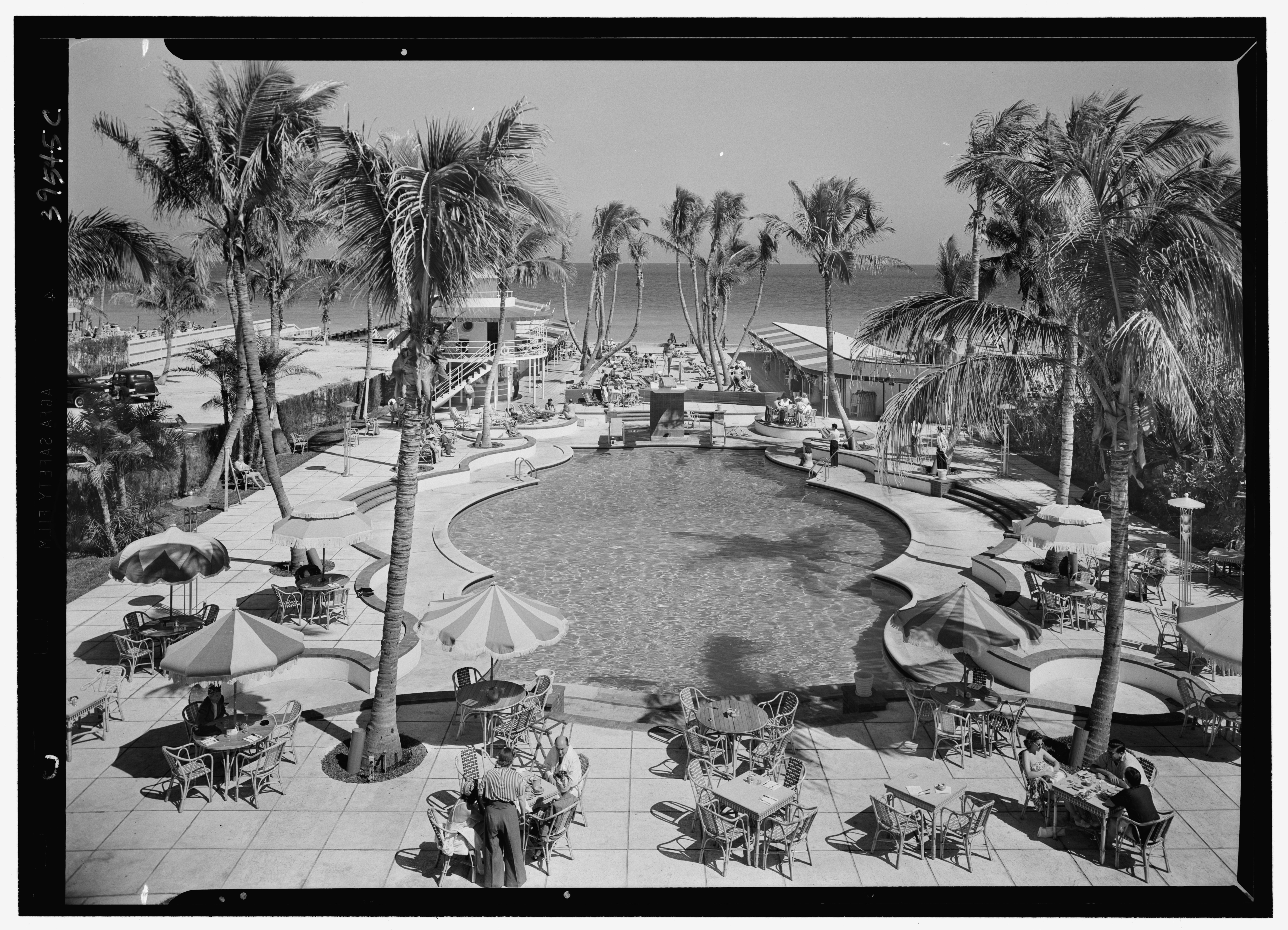 Title: Raleigh Hotel, Collins Ave., Miami Beach, Florida. Abstract/medium: Gottscho-Schleisner Collection (Library of Congress) Physical description: 1 negative